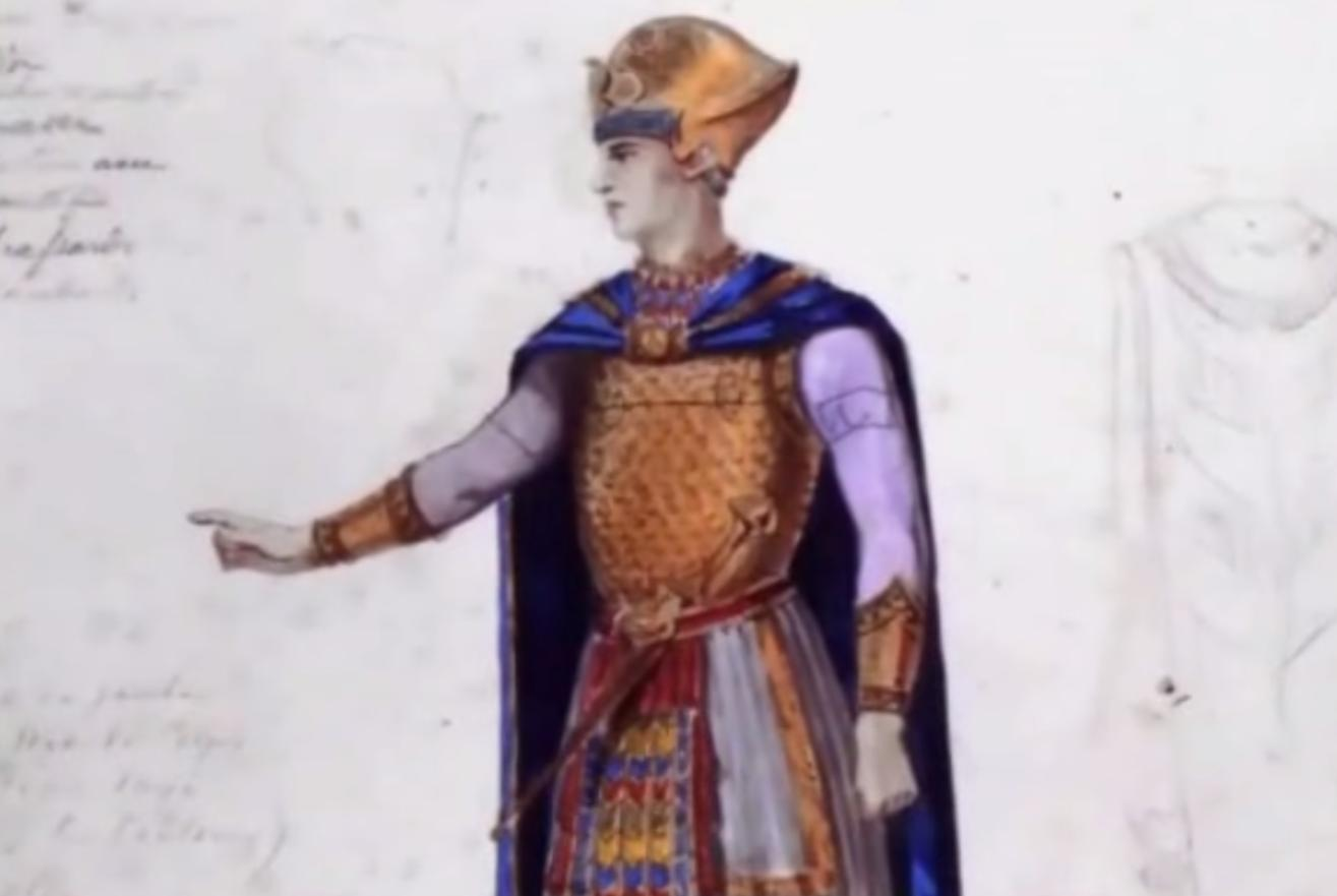 Sketch for the premiere of Aïda in Cairo